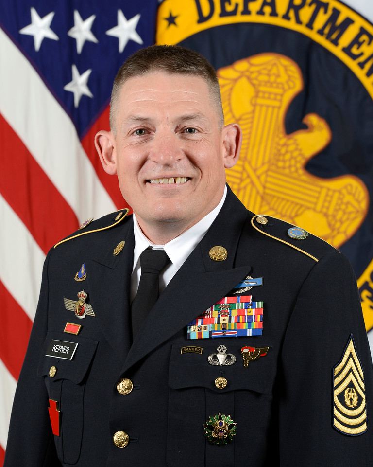 Command Sgt. Maj. Christopher S. Kepner